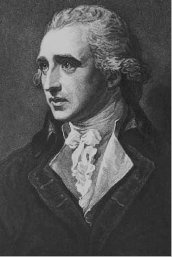 Lord Charles Montagu, South Carolina Governor